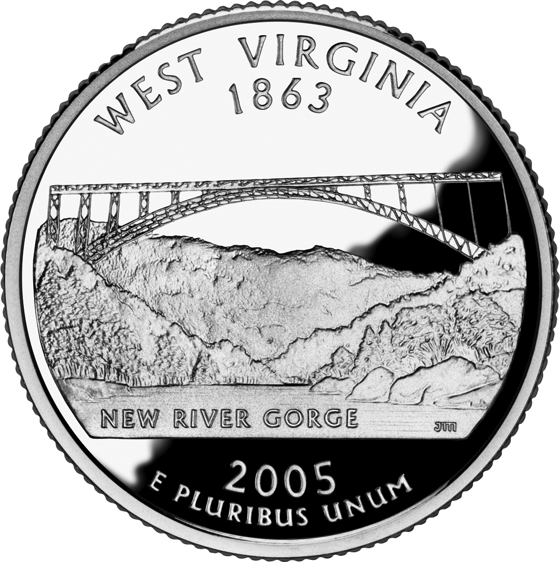 Removed background, cropped, and converted to PNG with Macromedia Fireworks. This image depicts a unit of currency issued by the United States of America. If Fraudulent use of this image is punishable under applicable counterfeiting laws. As listed by the United States Secret Service at money illustrations, the Counterfeit Detection Act of 1992, Public Law 102-550, in Section 411 of Title 31 of the Code of Federal Regulations (31 CFR 411), permits color illustrations of U.S. currency provided:1. The illustration is of a size less than three-fourths or more than one and one-half, in linear dimension, of each part of the item illustrated;2. The illustration is one-sided; and3. All negatives, plates, positives, digitized storage medium, graphic files, magnetic medium, optical storage devices, and any other thing used in the making of the illustration that contain an image of the illustration or any part thereof are destroyed and/or deleted or erased after their final use. Certain coins contain copyrights licensed to the U.S. Mint and owned by third parties or assigned to and owned by the U.S. Mint [1]. For the United States Mint circulating coin design use policy, see [2]; for the policy on the 50 State Quarters, see [3]. Also: COM:ART #Photograph of an old coin found on the Internet